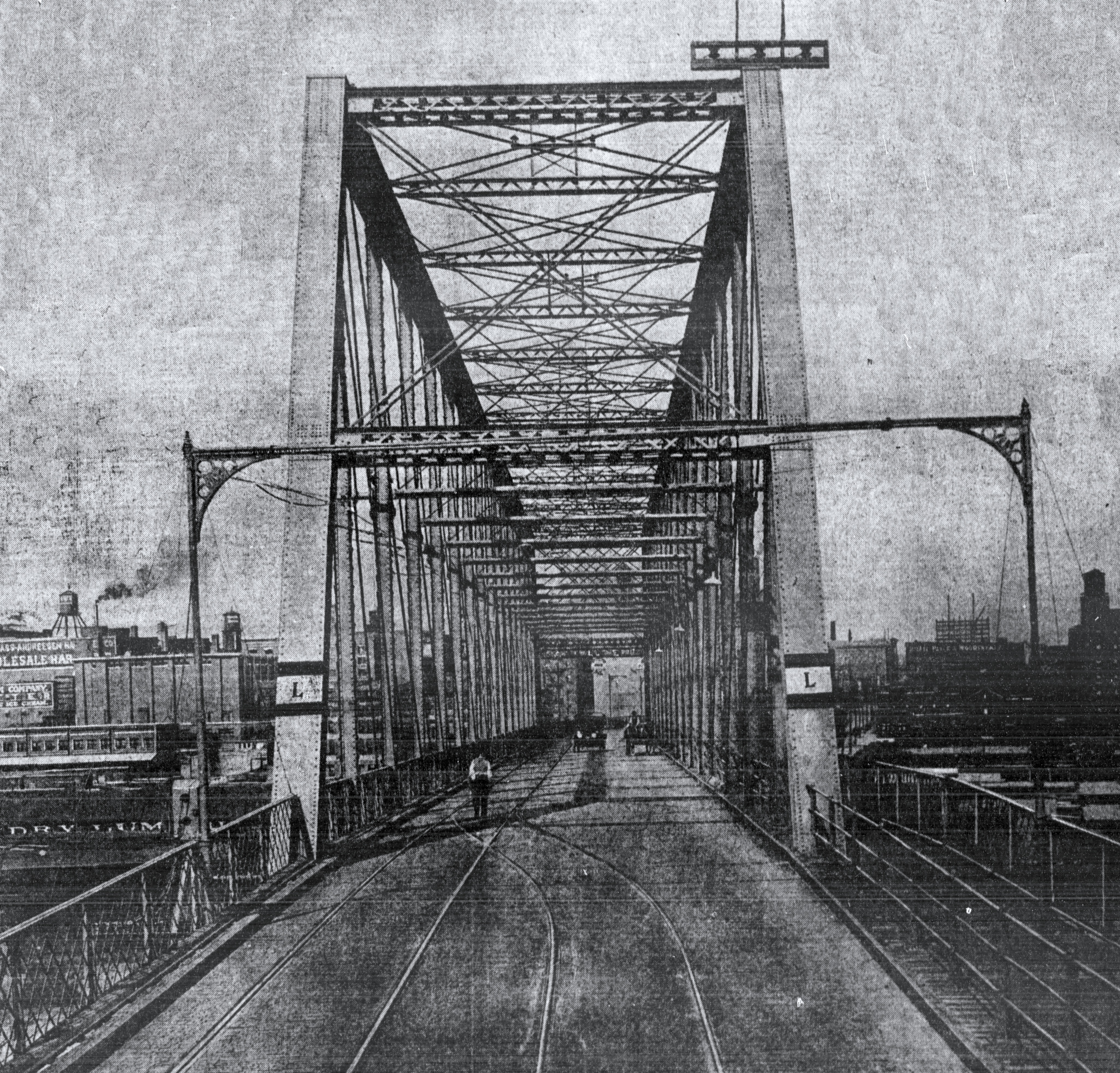 The Ak-Sar-Ben Bridge was a truss bridge that was the first road bridge to cross the Missouri River connecting Omaha, Nebraska and Council Bluffs, Iowa. It was replaced in 1966 by the Interstate 480 girder bridge. Originally called the Douglas Street Bridge, the bridge was built by the Omaha and Council Bluffs Street Railway Company in 1888 and was designed to handle streetcars. It was a toll bridge. (This image was slightly altered from source. An attempt was made to remove the drawn decorative overlay on the top part of this photo in order to reduce visual confusion when used isolated from other parts of original source.)